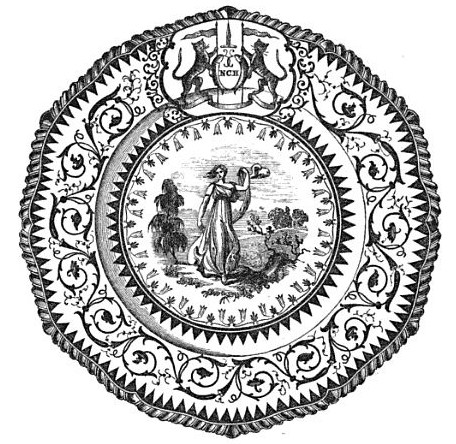 A plate from a service made for Lord Valentia by the "Royal Worcester Porcelain works" (early 19th century). The central figure was painted by Thomas Baxter. Extra information: The Worcester Royal Porcelain Co. Ltd. knownn as Royal Worcester was formed in 1862.